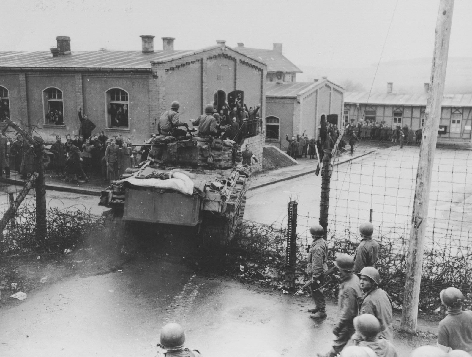 "Allied POWs, imprisoned in a camp near Hammelburg, cheer as an American tank crashes through the barbed wire enclosure of the prison camp."